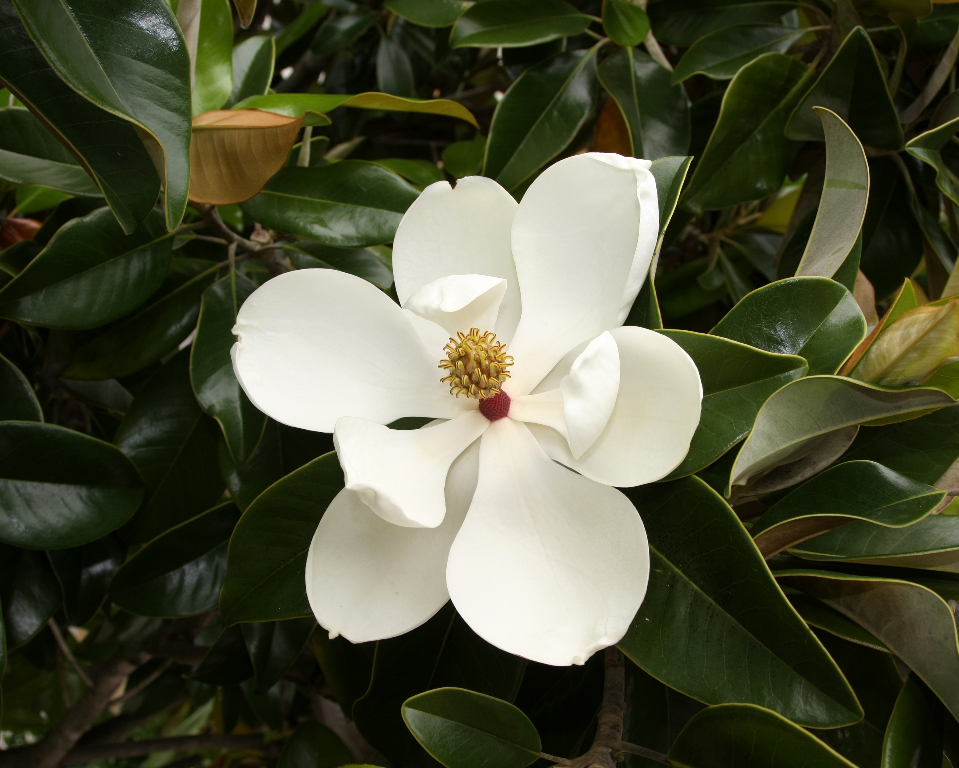 Magnolia grandiflora flower and foliage.